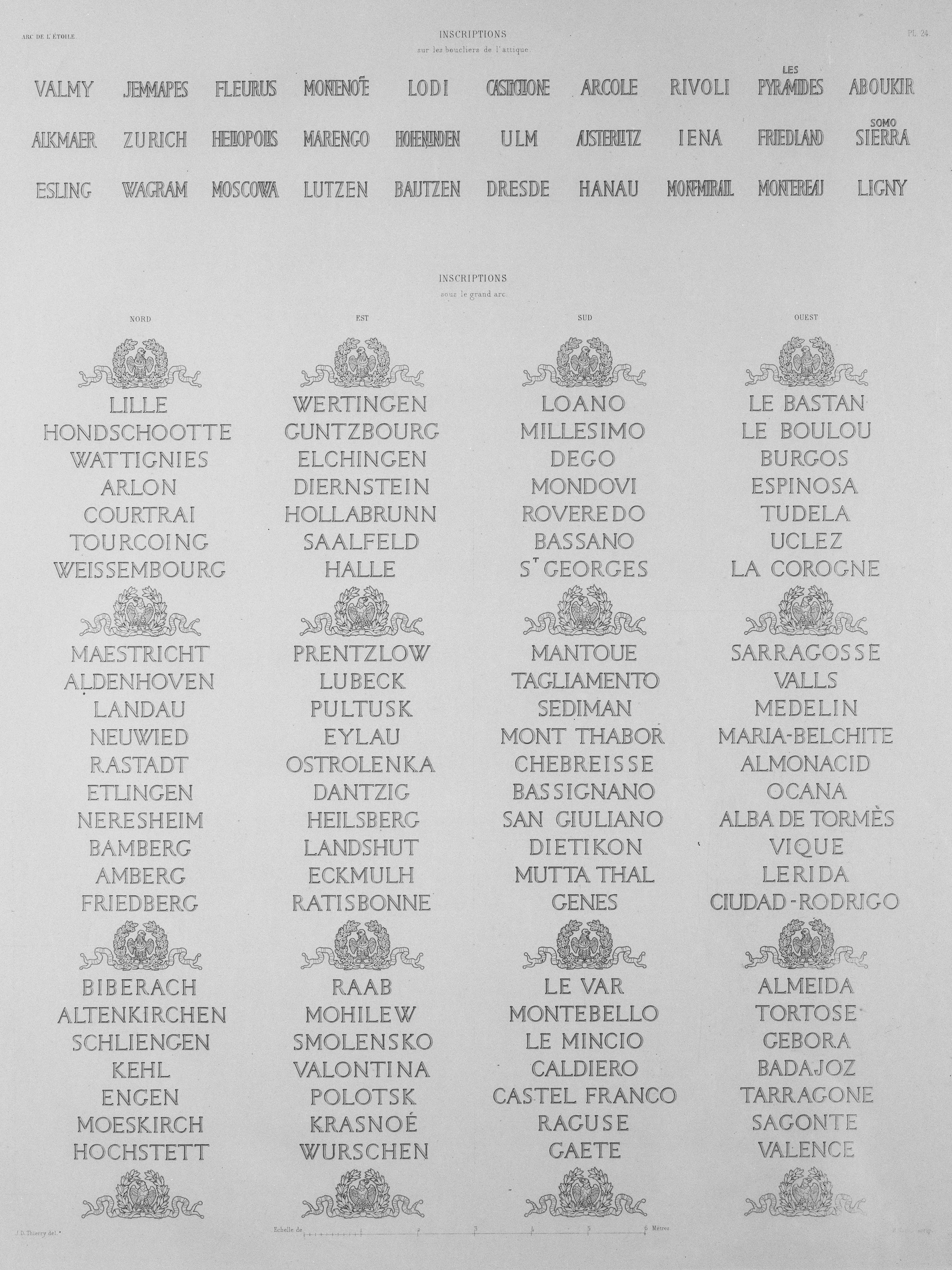 Inscriptions sur les boucliers de l’attique and Inscriptions sous le grand arc on plate 24 of Thierry’s book